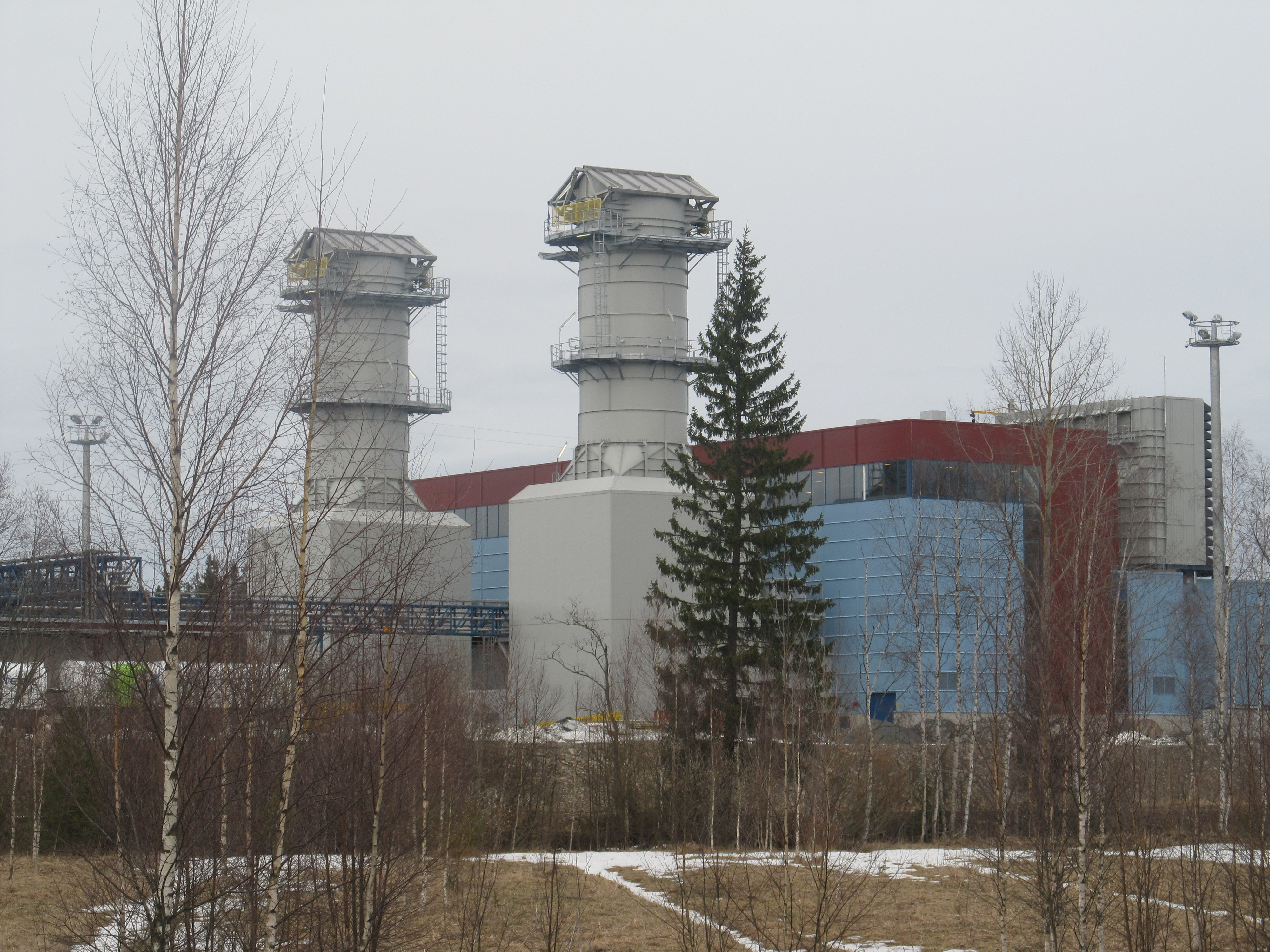 Fingrid OyJ Reserve Power Plant with two gas turbine in Forssa, Finland. Power: 300 MW